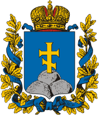 Yerevan Governorate Coat of Arms